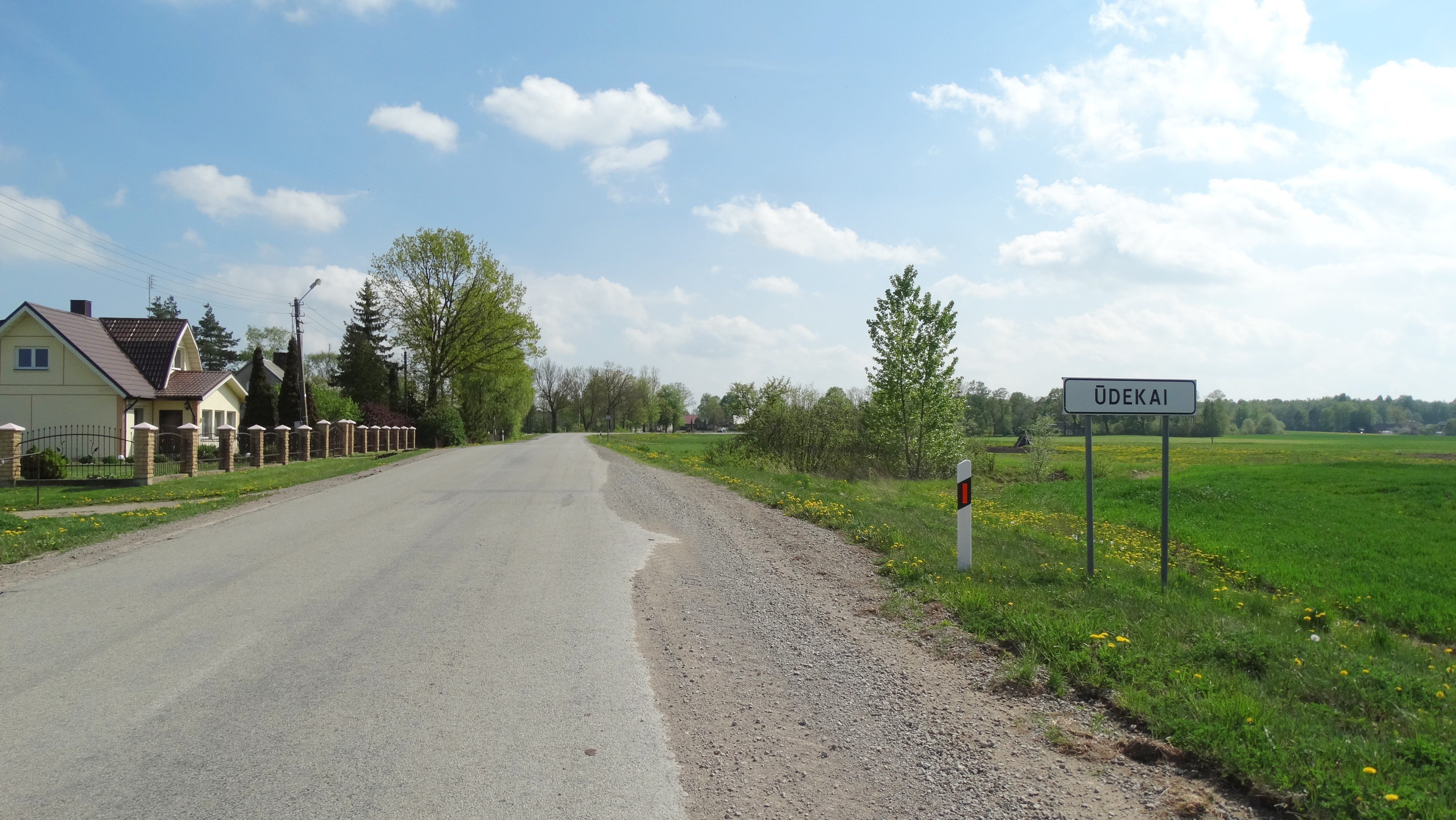 Ūdekai, Pakruojis district, Lithuania